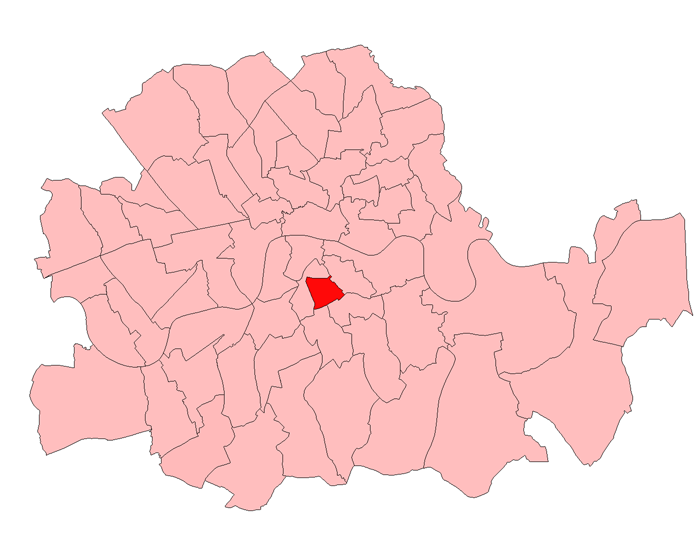 A map of Southwark South East constituency within the London County Council area, as it existed from 1918 to 1949.